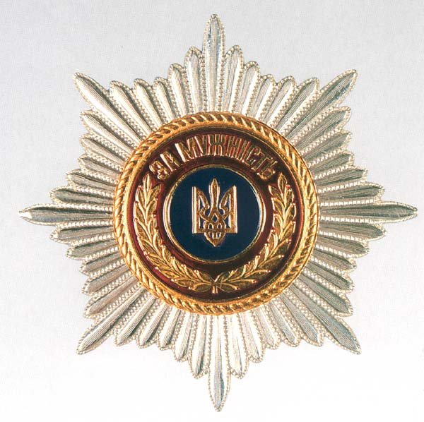 Ukrainian National Award - the order "For Bravery"